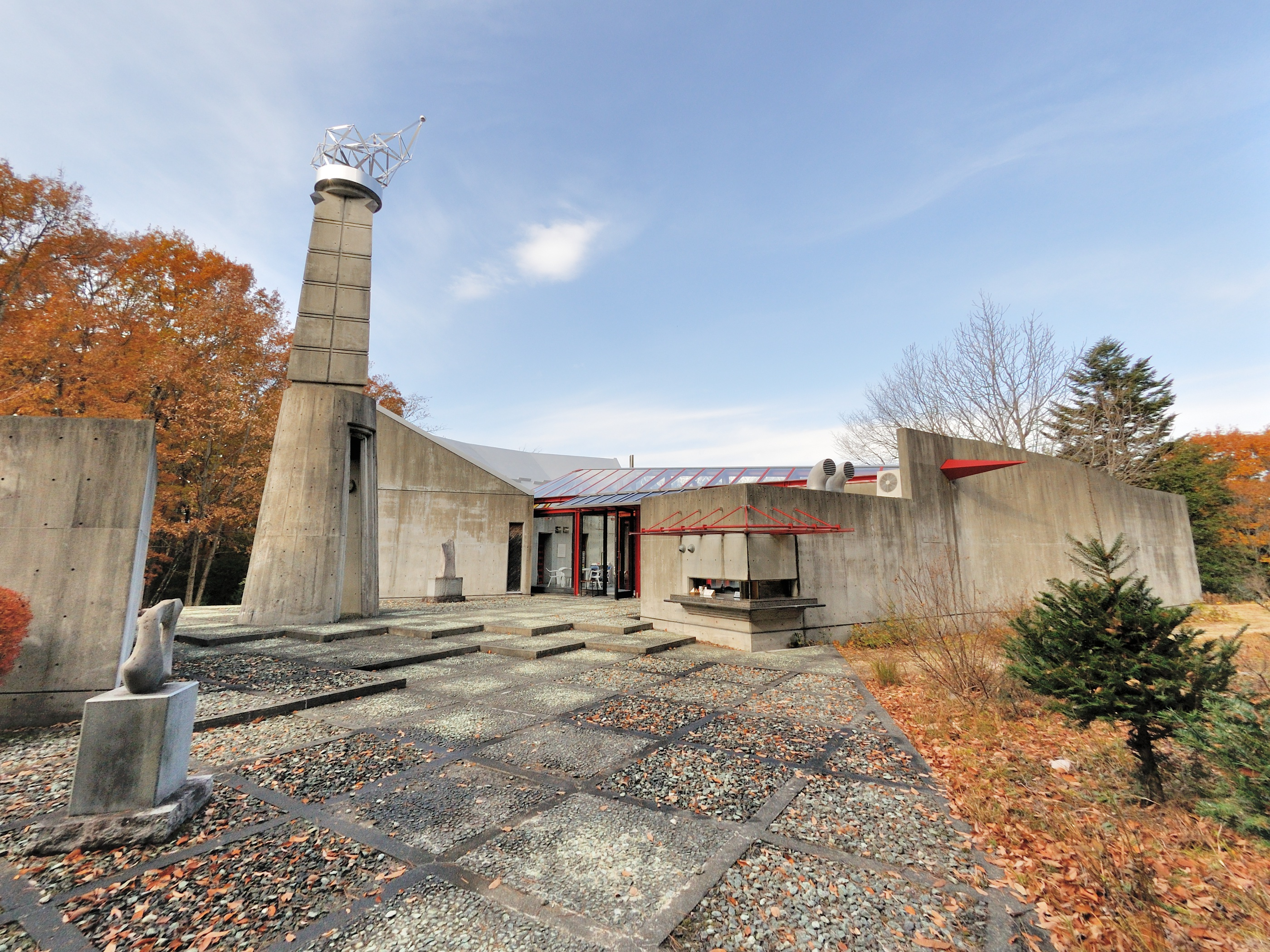 Photograph of INFORMEL NAKAGAWAMURA MUSEUM, main building and symbol tower exterior. address 2124 Ookusa, Nakagawa Village, Kamiina District, Nagano Prefecture, Japan photo date November 24, 2012